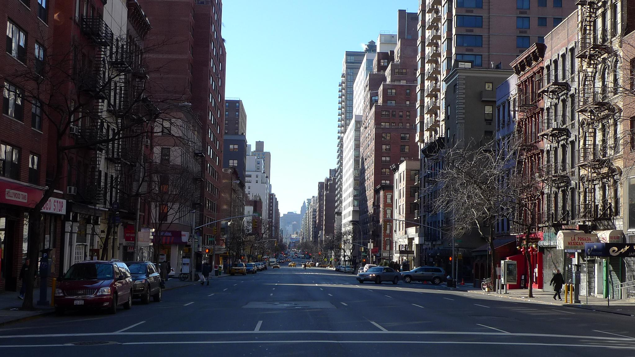 Crossing of Third Avenue and 27th Street in Manhattan